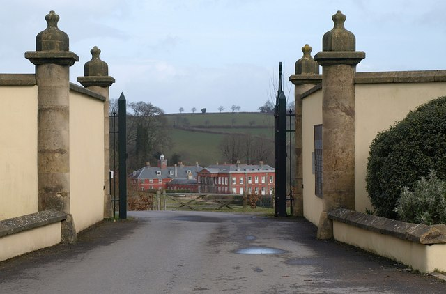 Gateposts of Syon Abbey in the parish of Rattery in Devon. The large Georgian country house beyond was built by the Palk family as "Marley House". In about 1800 Walter Palk, MP, purchased the manor of Rattery with several estates, from the Hering family. (Risdon, Tristram (d.1640), Survey of Devon, 1811 edition, London, 1811, with 1810 Additions, p.380). In 1935 it was renamed Syon Abbey, when it became the home of a community of Bridgettine nuns, which had lived on the Continent in exile following King Henry VIII's Dissolution of Wikipedia:Syon Monastery in Twickenham, Middlesex. See [1]. The building is in SX7261.